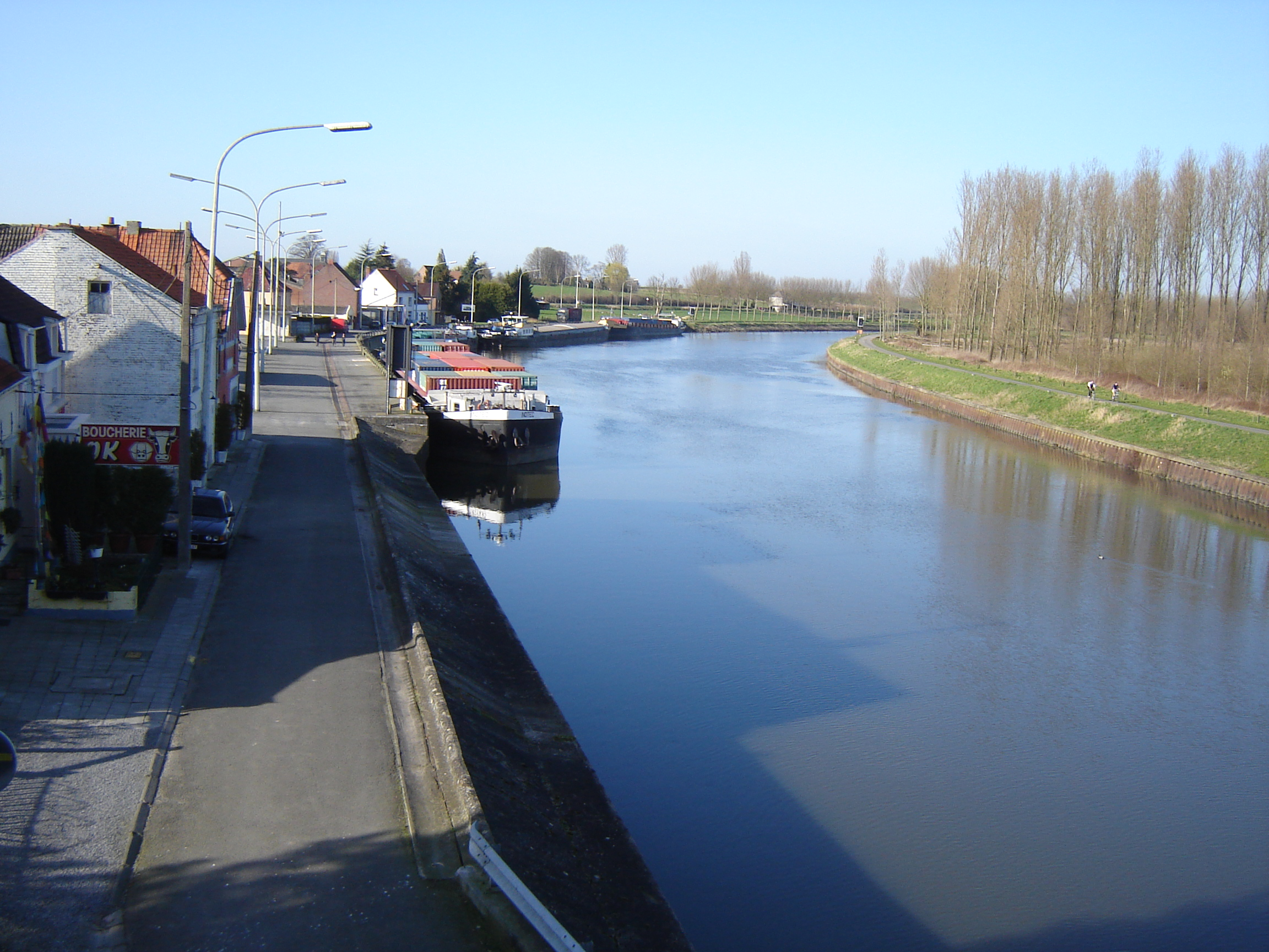 The river Scheldt, as seen from the bridge in Bléharies, north direction. Bléharies, Brunehaut, Hainaut, Belgium